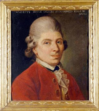 Portrait of soprano castrato and composer Giuseppe Aprile (1732–1813)